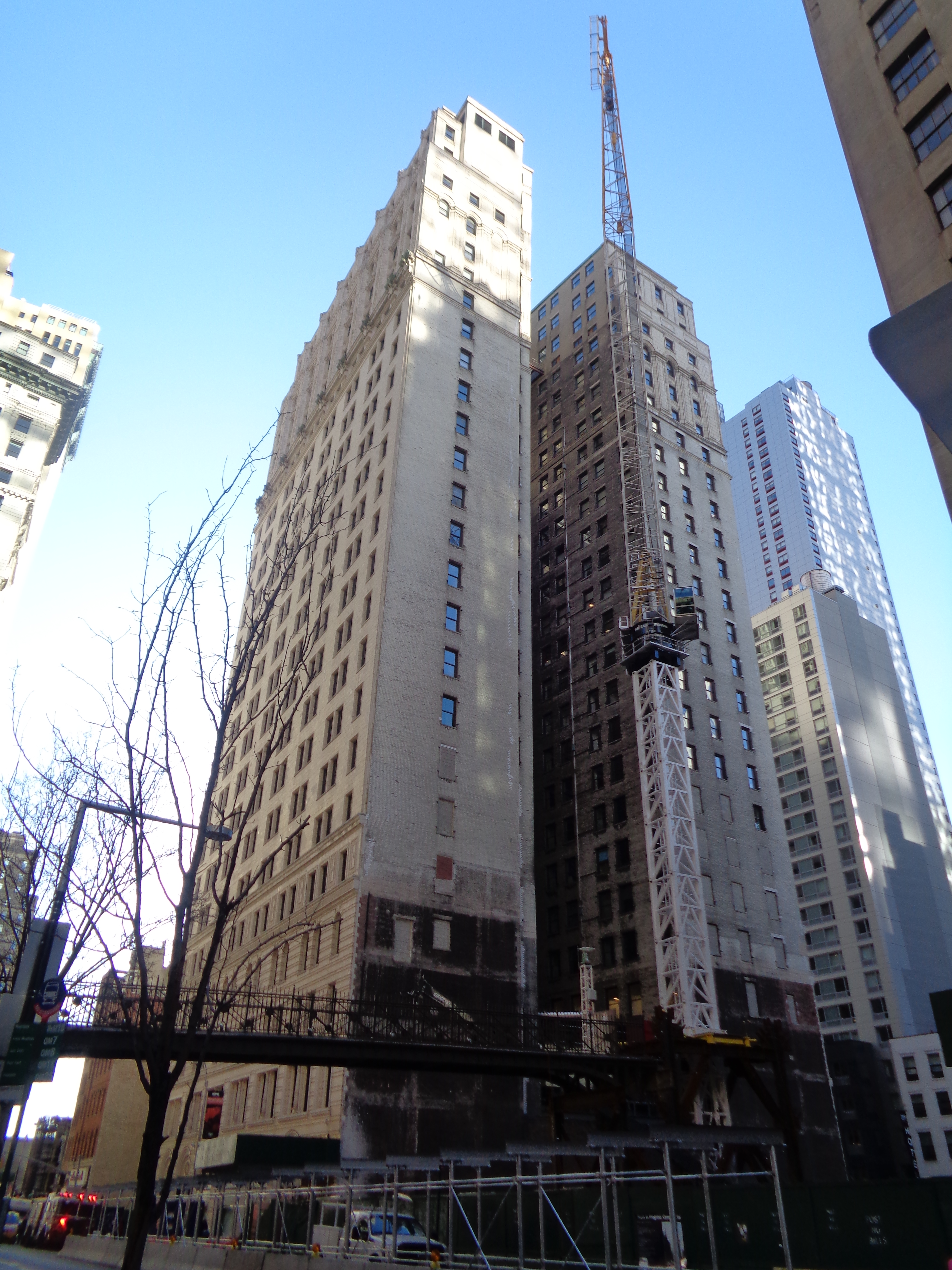 The rear face of 2 Rector Street, looking from the east side of Trinity Place between Rector Street and Thames Street in the Financial District, Manhattan.